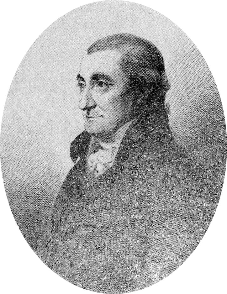 Sir Nathaniel Dance, Knt. Commander of the Earl Camden, in the service of the Honble East India Company, and Commodore of the China Fleet in 1804. Engraving by James Fittler after the original by George Dance, published by Joyce Gold